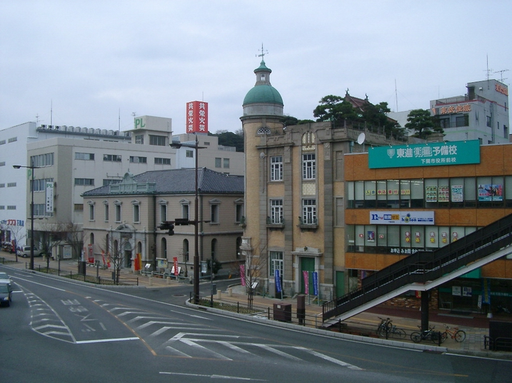 Suhobei took this picture in Shimonoseki city in December 2005, Japan.